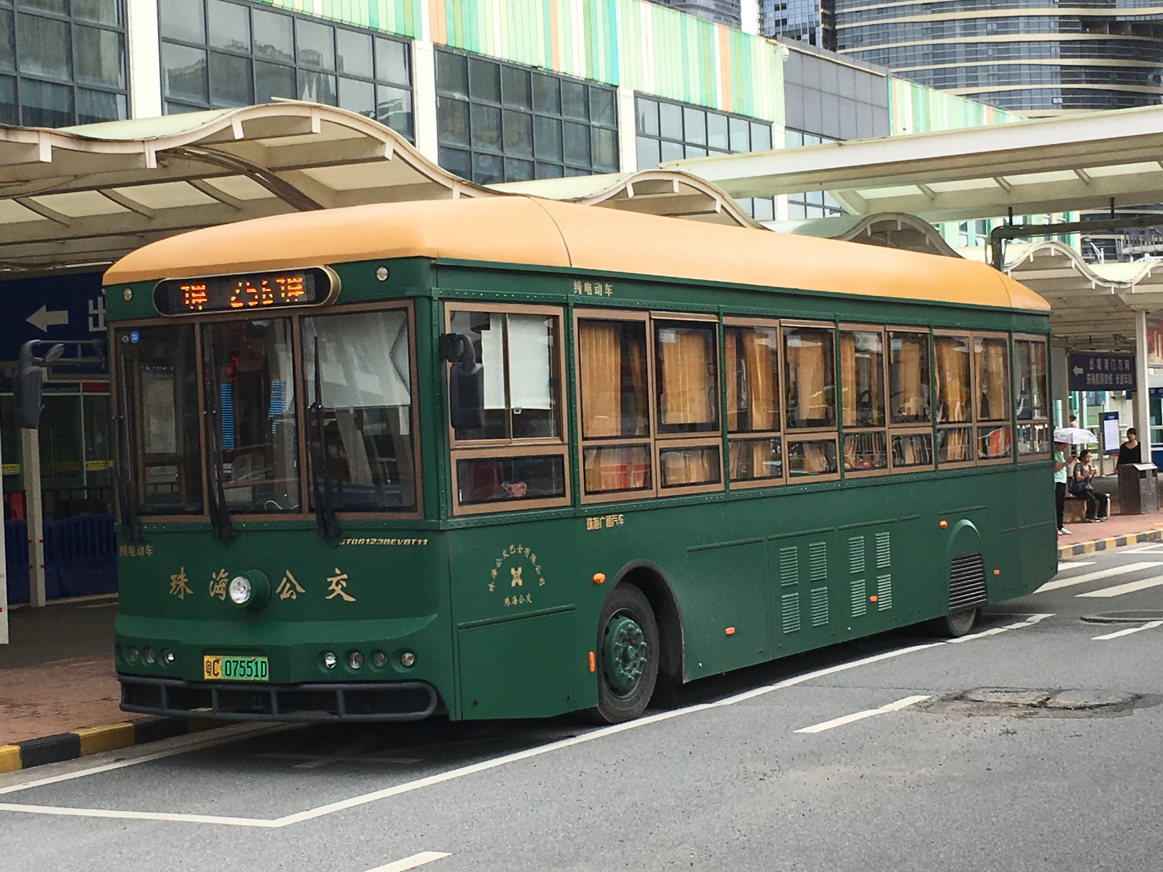 中文（香港）: This photo is taken in Hengqin Port.